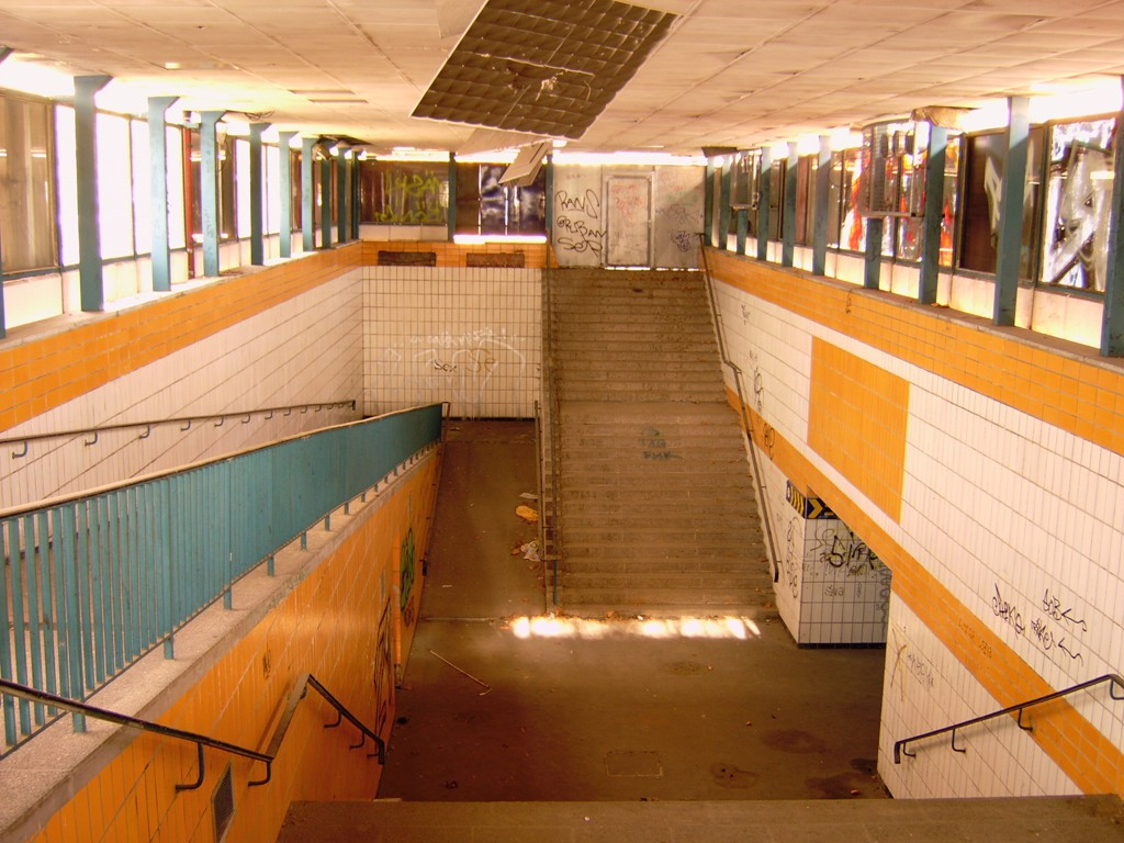 Berlin, closed pedestriantunnel Weißenseer Weg